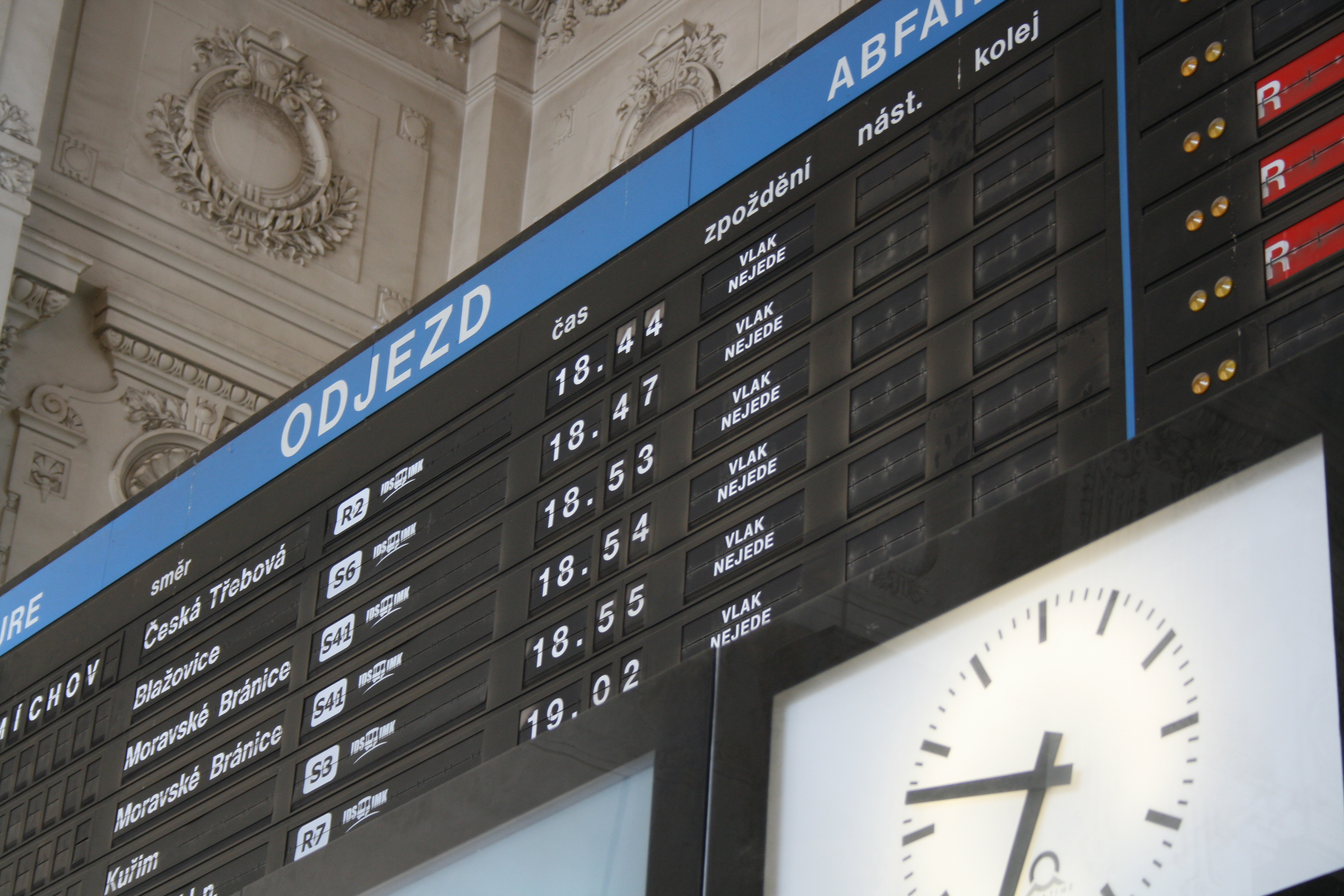 The nation-wide union-organised transport strike June 16, 2011 in the Czech Republic. This photo is taken in Brno at the main railway station.